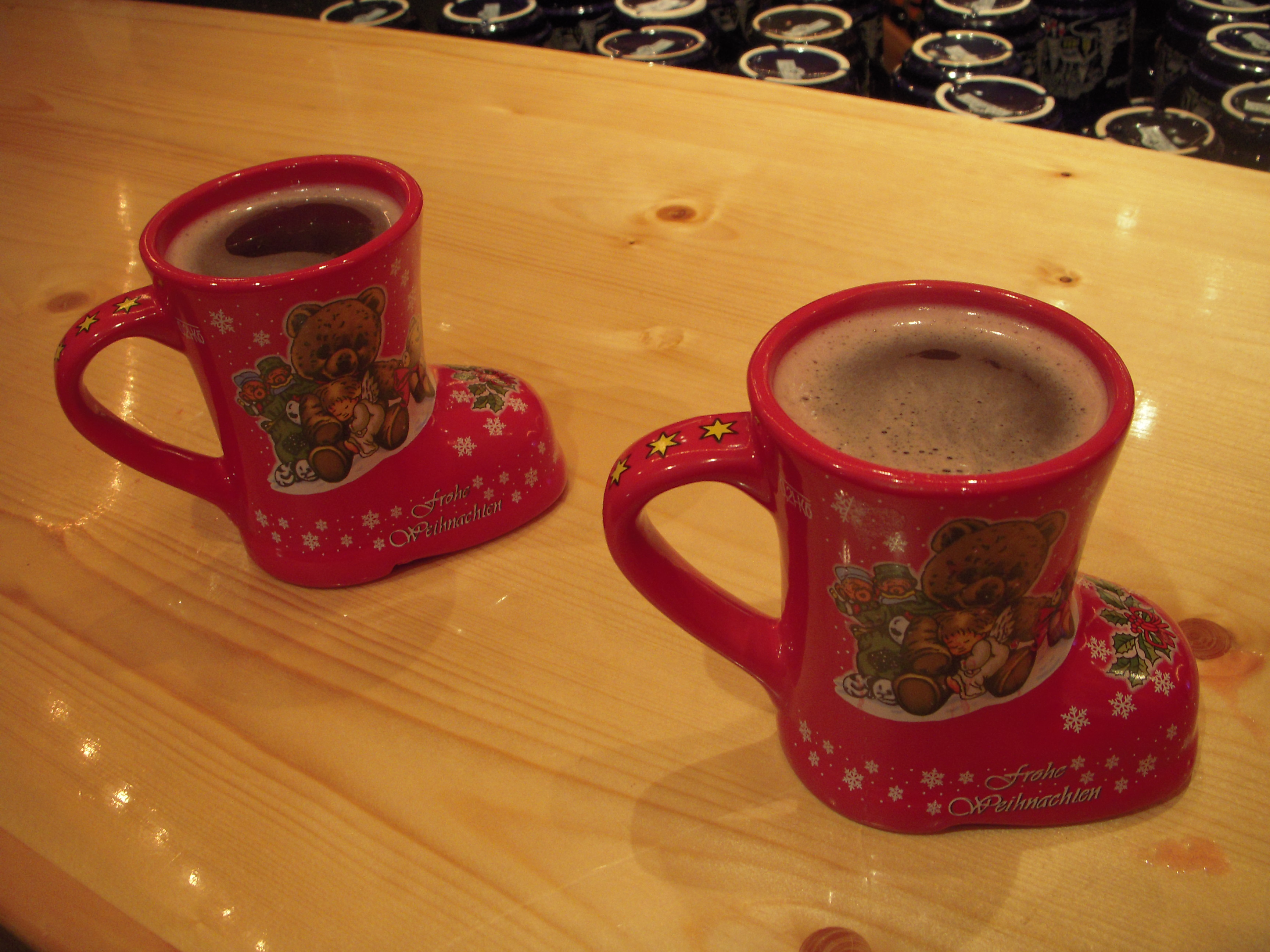 Glühwein at the Christmas Market in front of Schloss Charlottenburg in Berlin. December 13, 2011.